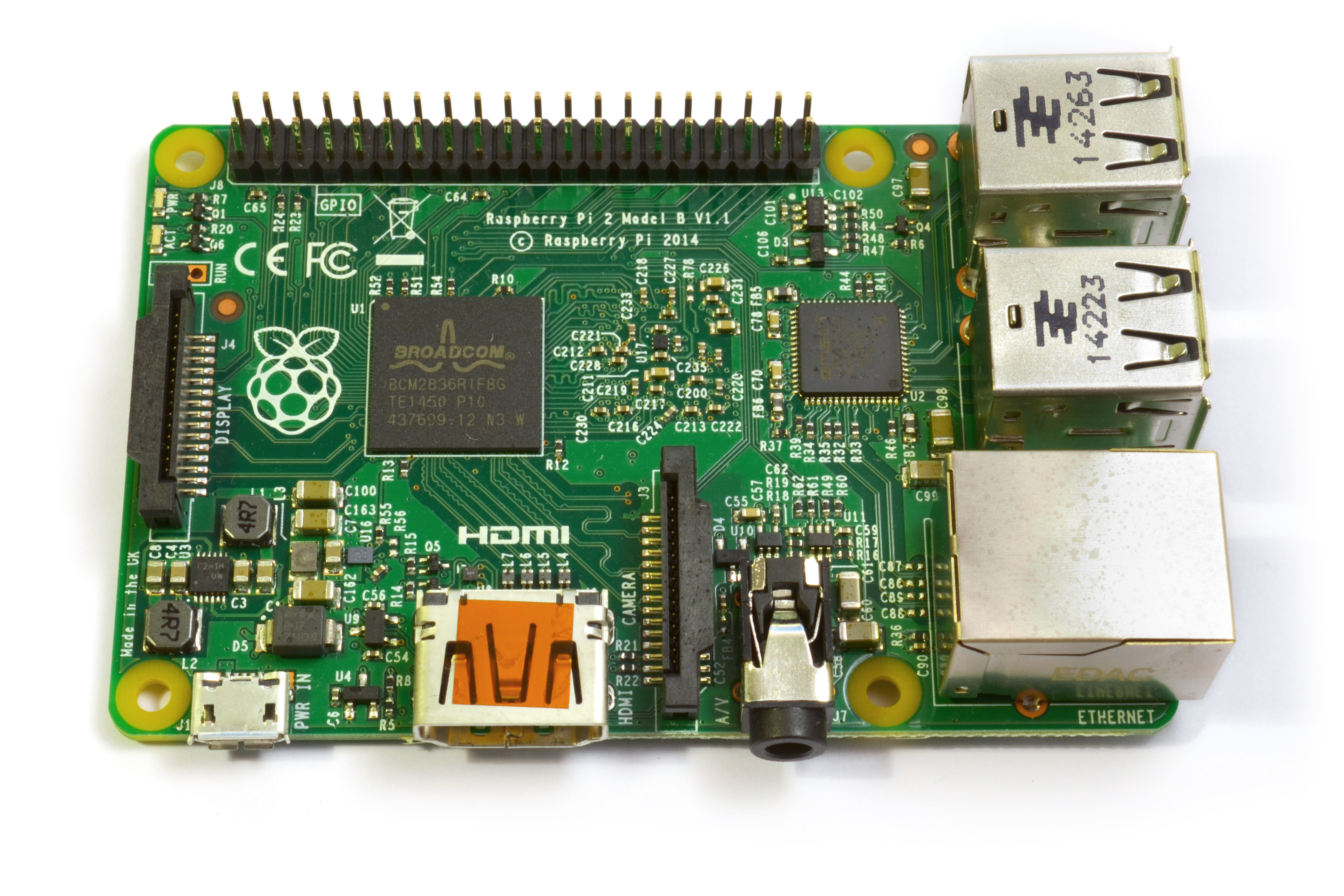 Top half of Raspberry Pi 2 Model B v1.1 seen from back at angle. (Ordered the day after it came out- on Tue 3 Feb 2015- and received a couple of days after that. This one was supplied by CPC/Farnell and "Made in the UK")